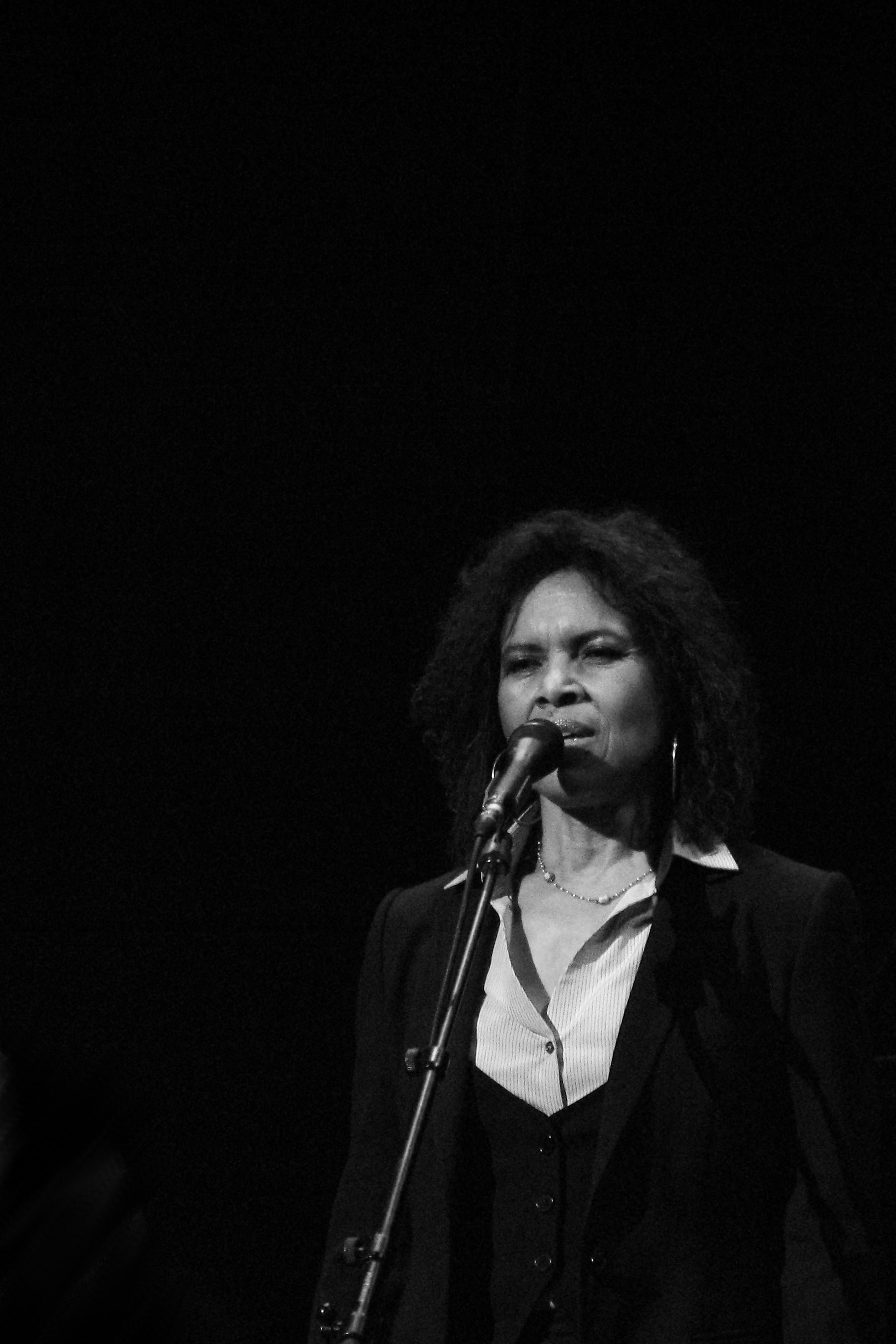 Sharon Robinson performing during the 2008 tour of Leonard Cohen